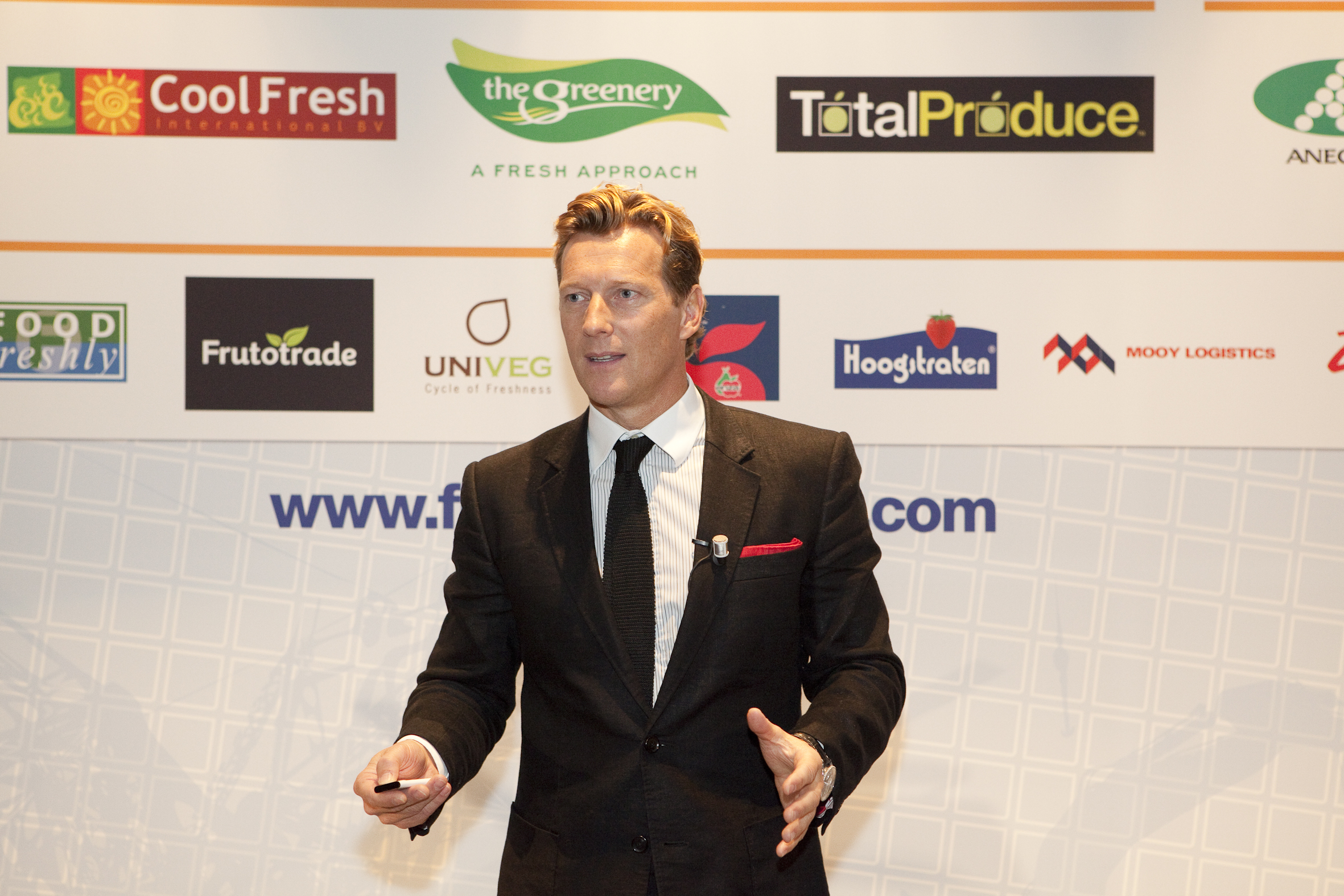 Session 2: Marketing - Magnus Scheving(LazyTown)